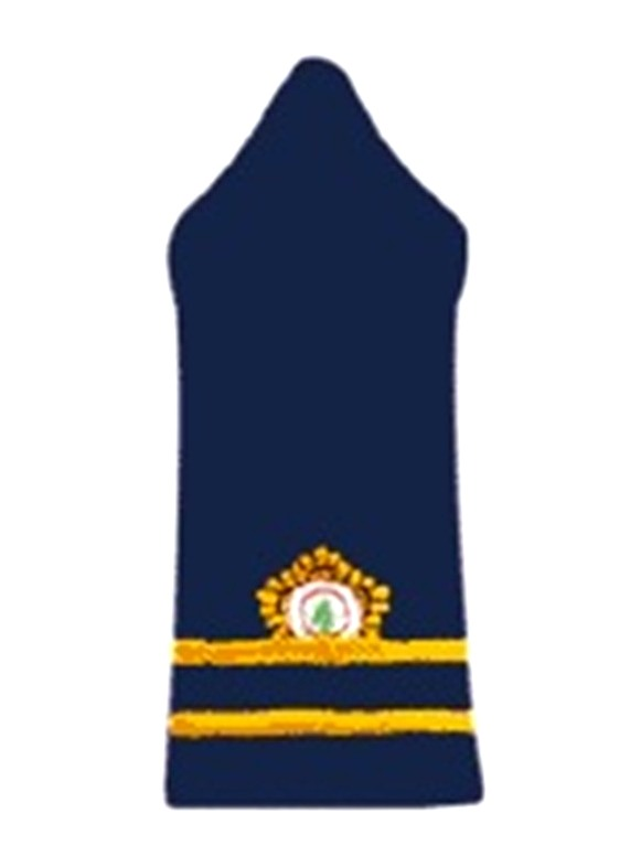 Lebanese Army's Insignia of Chief Warrant Officer (Non-commissioned Officer Rank)